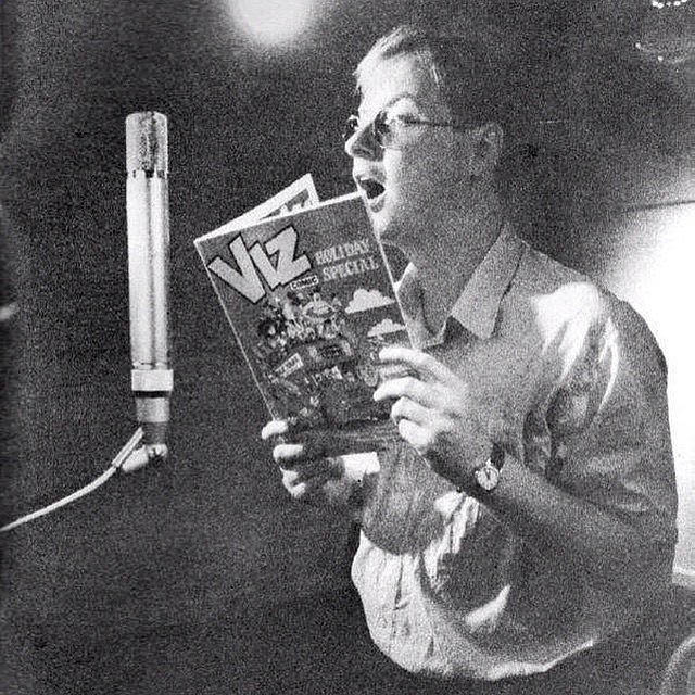 Happy birthday to Andy Partridge! You've written more great songs than I can even imagine! @xtcfanclub @xtcfans #xtc #andypartridge